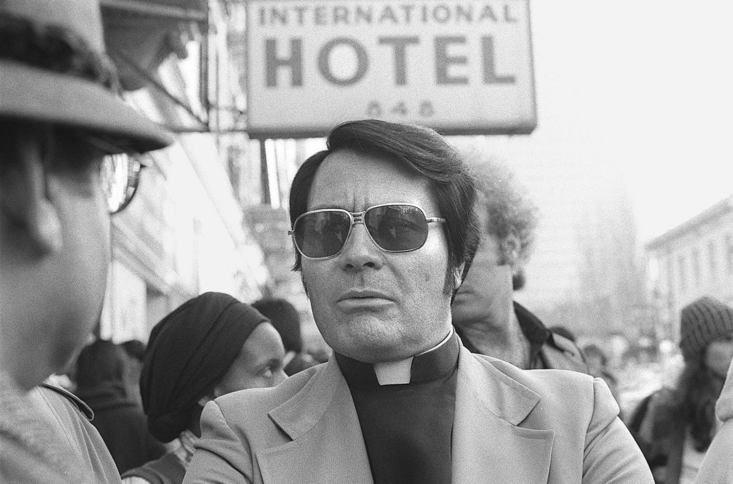 Reverend Jim Jones outside the International Hotel in San Francisco's Chinatown, on Kearny and Jackson Streets, during a rally to save the hotel.